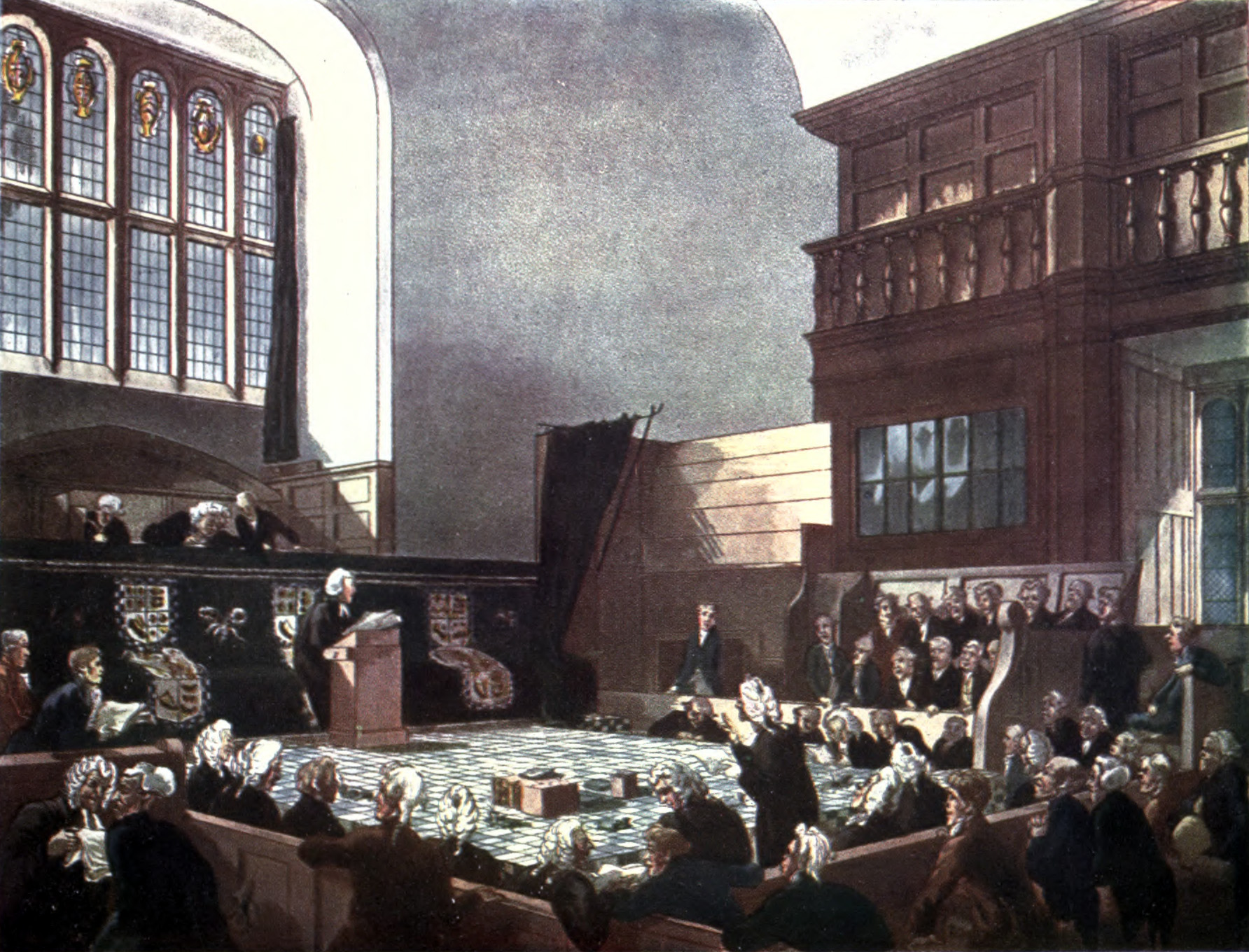 Court of Exchequer, Westminster Hall